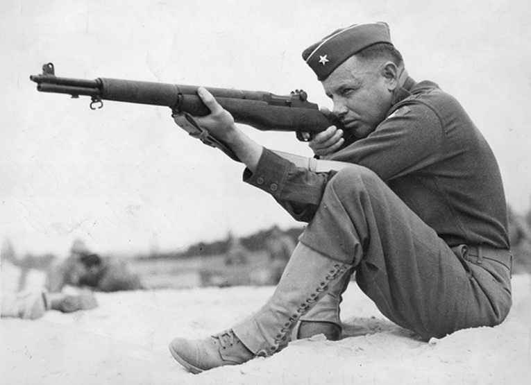 General Claudius Miller Easley practicing his marksmanship with an M1 Garand rifle. Brigadier General Easley personally supervised the 96th Division's marksmanship training and helped to keep the high level of markmanship. Thus division gained the nickname "Deadeyes". He was later killed in Okinawa.